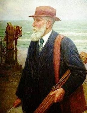 Self-portrait by the Belgian painter, Edgard Farasyn